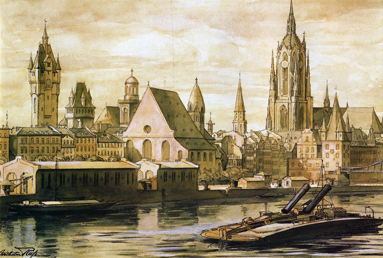 Frankfurt on the Main: Tugboat „Maakuh“ (coll. for „Main Cow“) of the Mainkette-AG (Main Chain Stock Corporation) in front of the Mainkai (Main Quay) on its line between Mainz and Aschaffenburg founded in 1886, in the background from left to right the towers Langer Franz (Tall Franz), Kleiner Cohn (Short Cohn), the Paulskirche (Saint Paul's Church), the Leonhardskirche (Saint Leonhard's Church), the ridge turret of the Römer, the tower of the Alte Nikolaikirche (Old Saint Nicholas Church) and of the Cathedral, followed by the ridge turret atop its crossing and finally the Rententurm (Pension Tower)